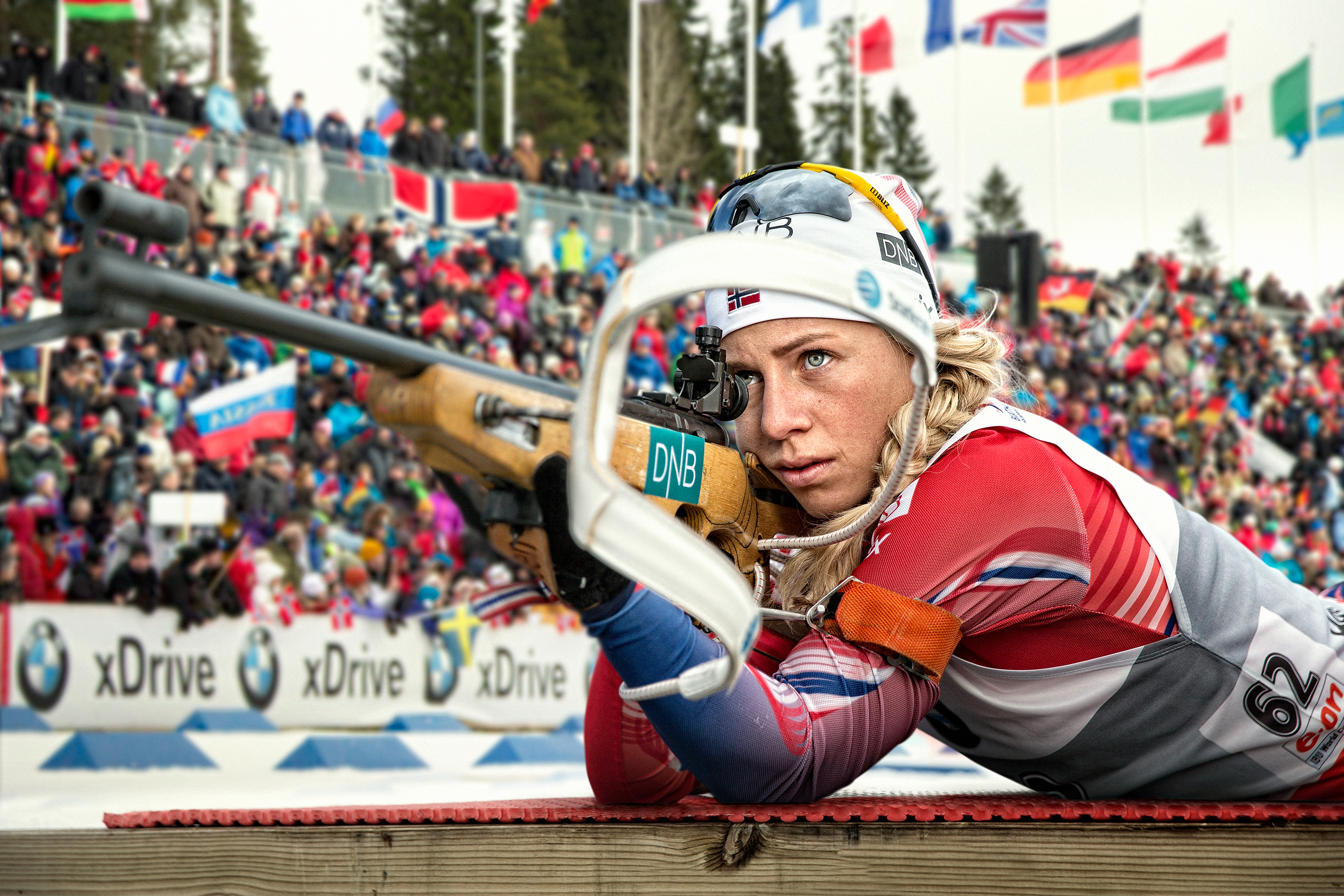 Norwegian biathlete Tiril Eckhoff.